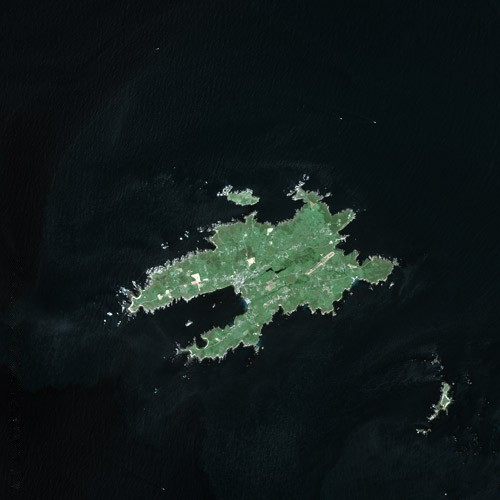 Ushant by SPOT Satellite